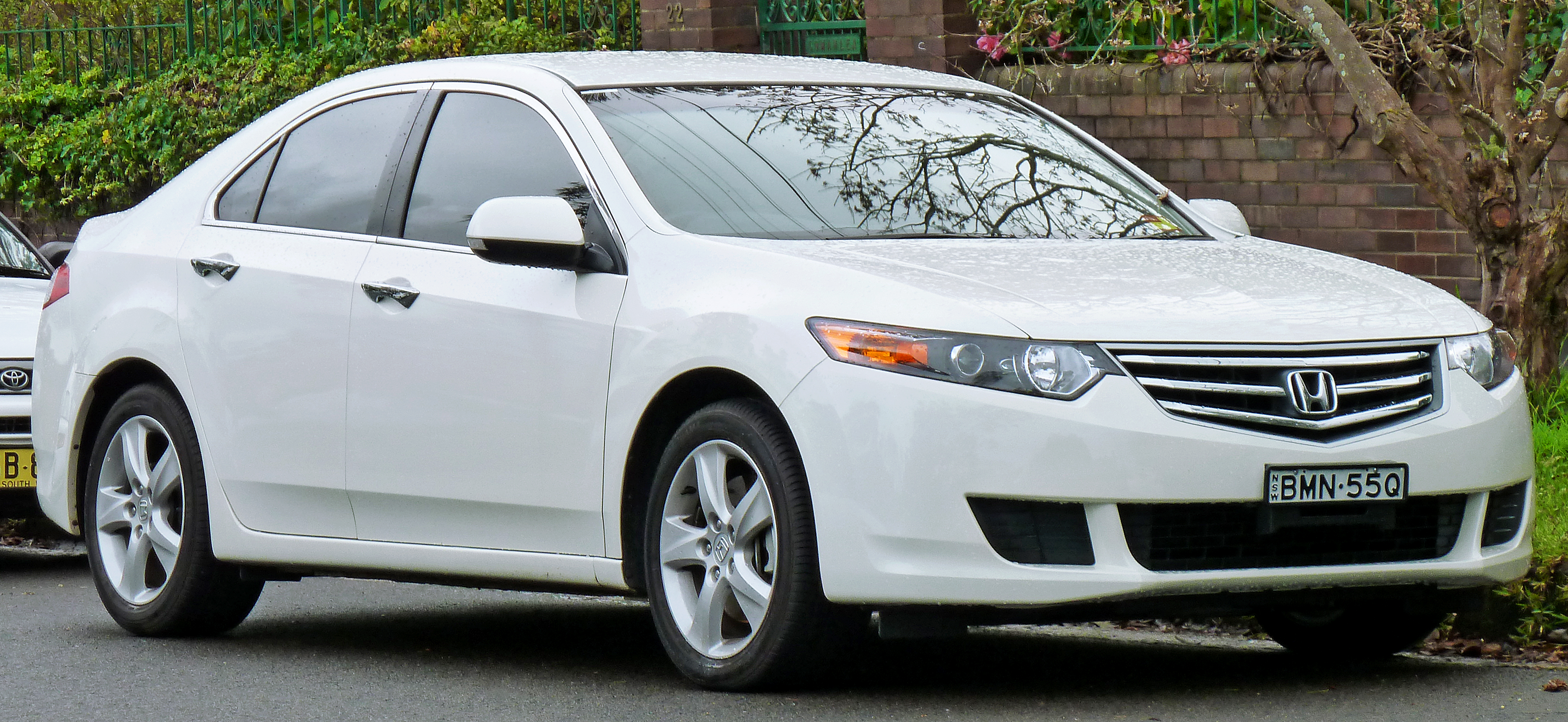 2008–2011 Honda Accord Euro sedan. Photographed in Gordon, New South Wales, Australia.